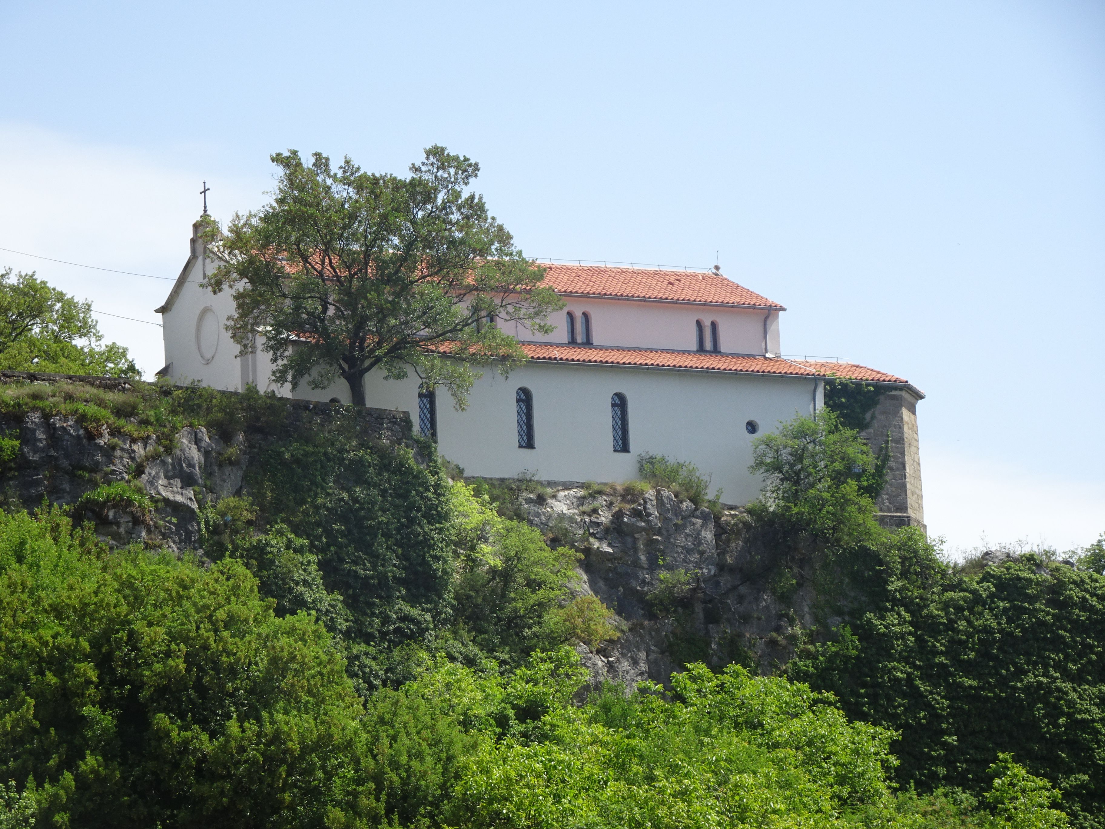 Kubed, Istria, Koper municipality, Slovenia